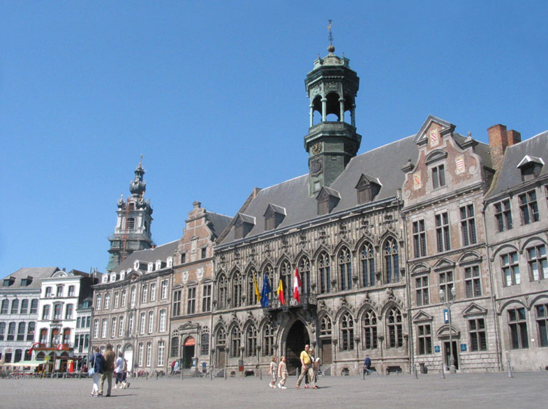 Mons (Belgium), the Grand'Place, the city hall and the belfry.